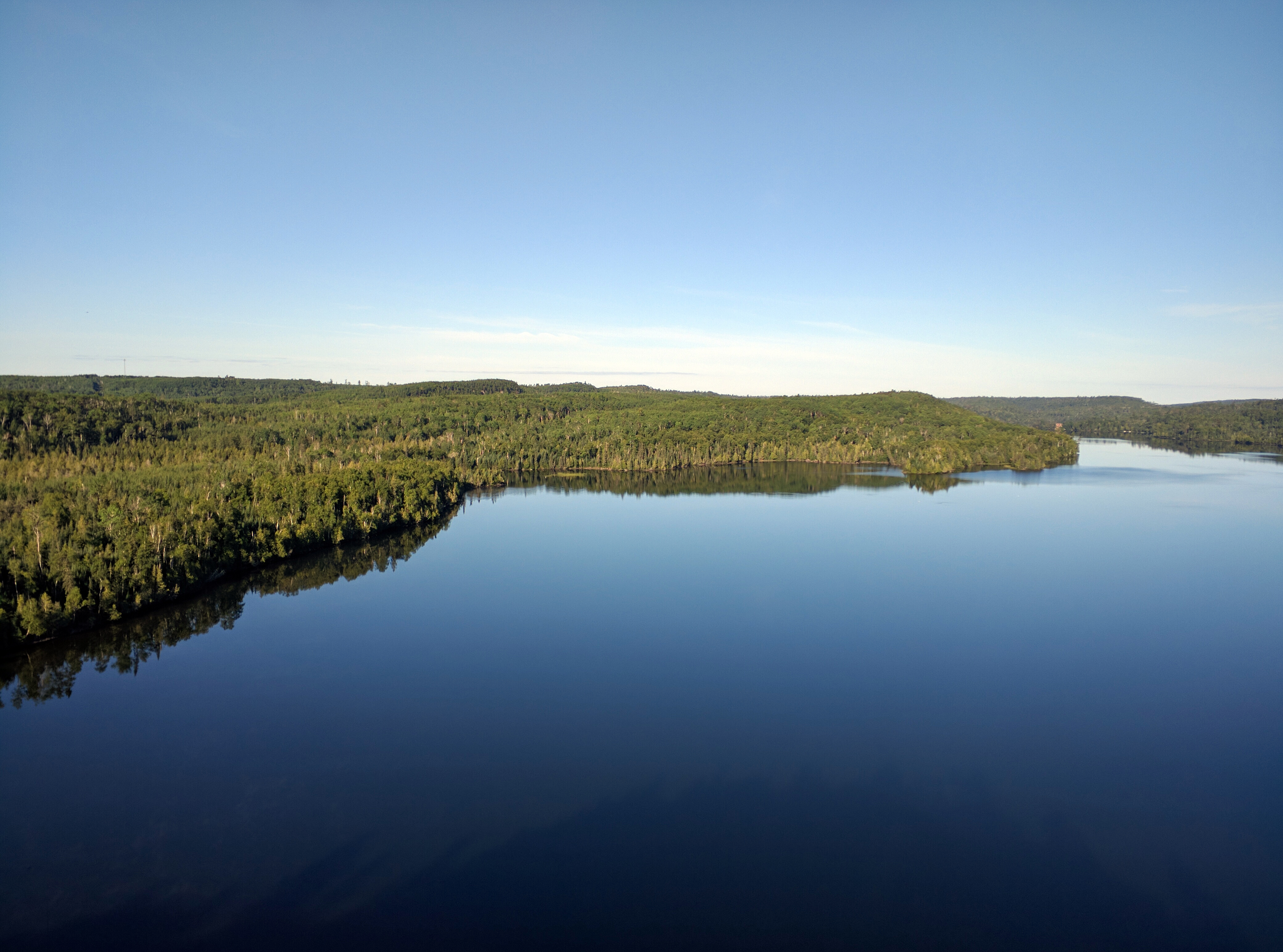 Photo by Courtney Celley/USFWS.